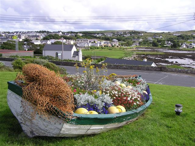 Ostan Na Rosann Hotel, Dungloe, County Donegal A view from the front garden